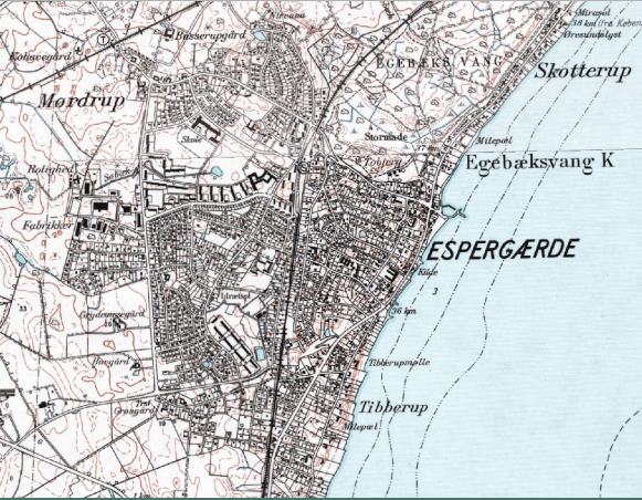 Espergærde 1969